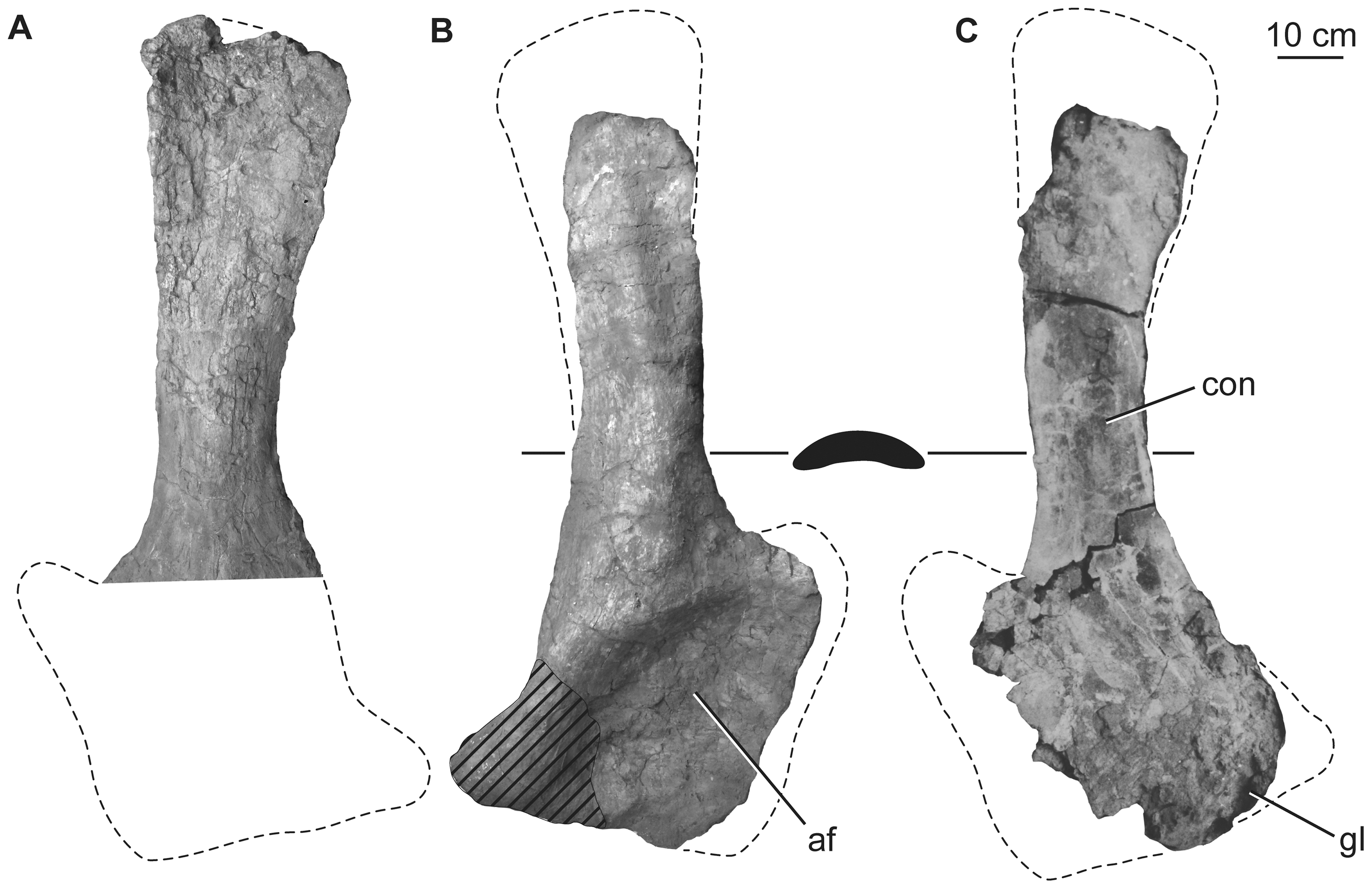 Holotypic scapulae of Huabeisaurus allocotus (HBV-20001) from the Upper Cretaceous of Shanxi, China. Left scapula in (A) lateral view; right scapula in (B) lateral and (C) medial views. Silhouette next to (B) shows schematic cross section of base of scapular blade. (A) and (B) photographed in 2012; (C) photographed during original preparation. Abbreviations: af, acromial fossa; con, concavity, gl, glenoid. Striped pattern indicates broken surface; dashed lines indicate broken bone margins.